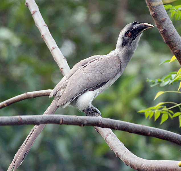 Indian Grey Hornbill Ocyceros birostris at Roorkee in Haridwar District of Uttarakhand, India.